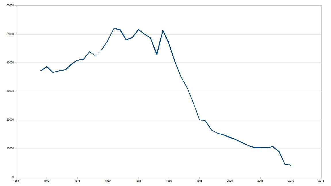 Abortion rates in Croatia in period 1969-2010